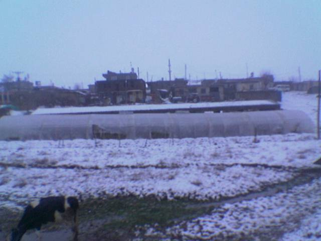 ovacık köyü samsat